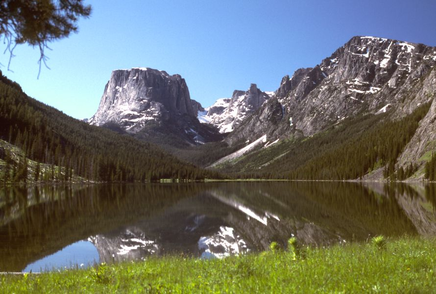 Mountains in the Wind River Range, Wyoming Green Lakes region of the Bridger Wilderness, Briger-Teton National Forest.